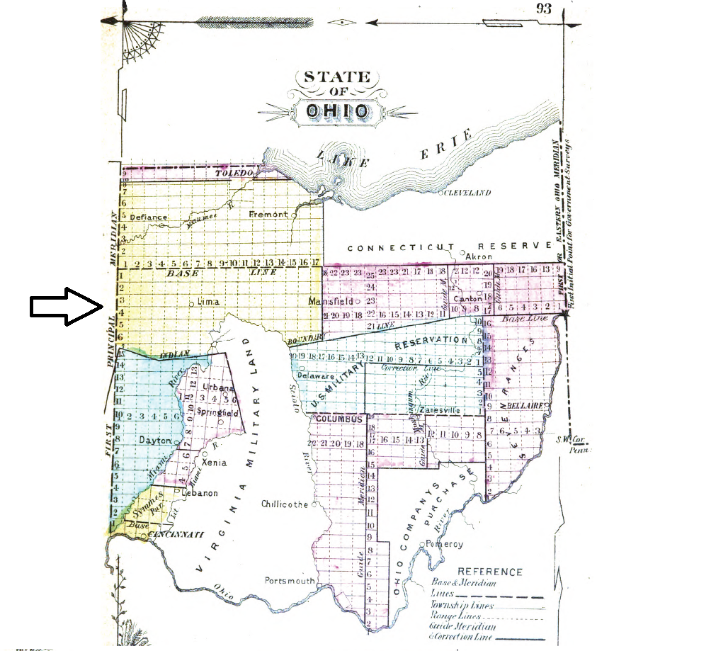 a land tract in northwest Ohio surveyed in the 19th century called the South and East of the First Principal Meridian